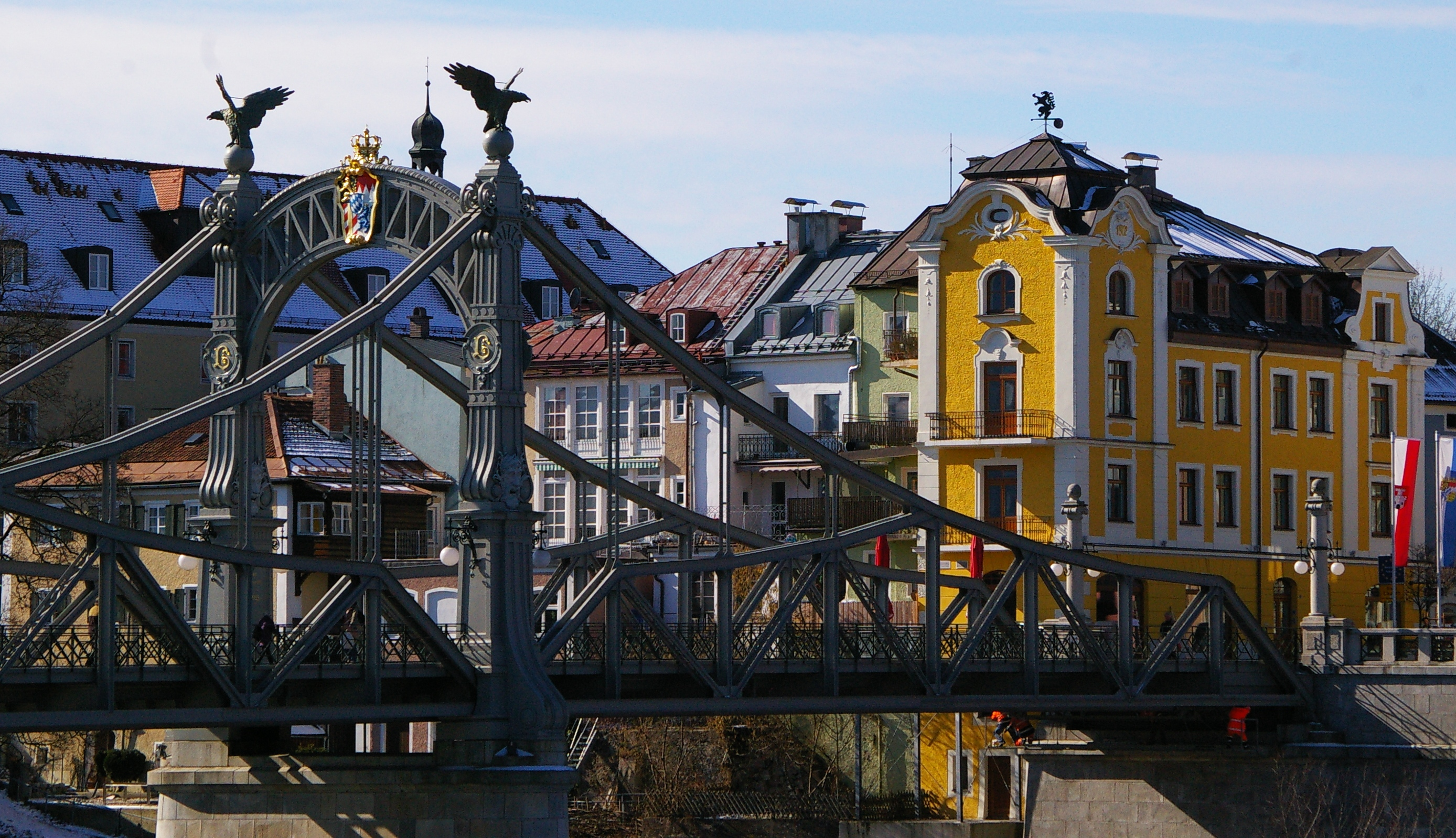 Laufen seen from Oberndorf